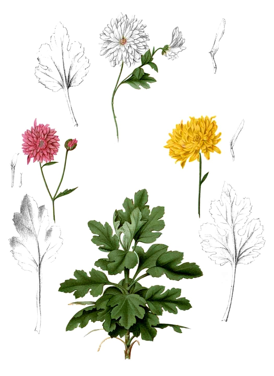 Plate from book